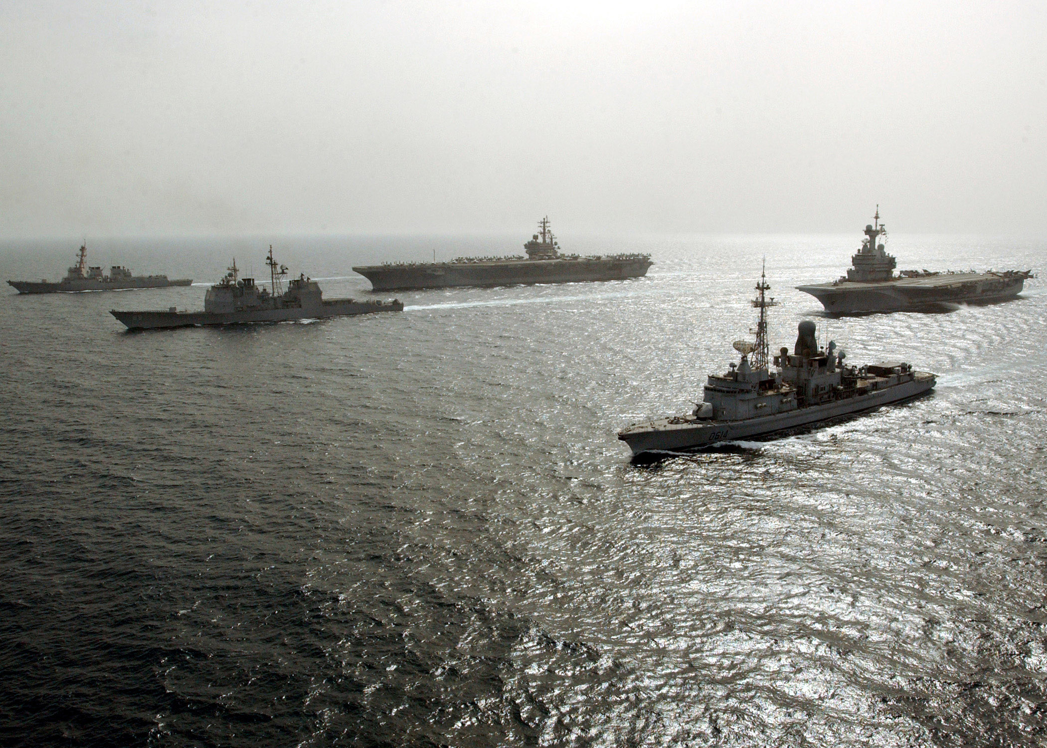 Persian Gulf - The Nimitz-class aircraft carrier USS Ronald Reagan (CVN 76), French nuclear powered surface vessel FS Charles De Gaulle (R-92), Cassard-class destroyer FS Cassard (D-614), guided missile cruiser USS Vicksburg (CG 69), and the guided-missile destroyer USS McCampbell (DDG 85) conduct joint operations in the Persian Gulf during a passing exercise (PASSEX). The U.S. and France are part of the coalition effort currently conducting Maritime Security Operations (MSO) in the region.